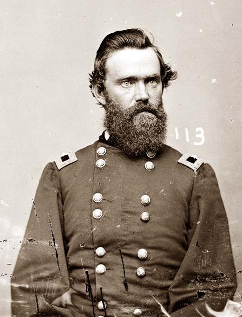 Gen. E.W. Rice, U.S.A. Library of Congress Prints and Photographs Division